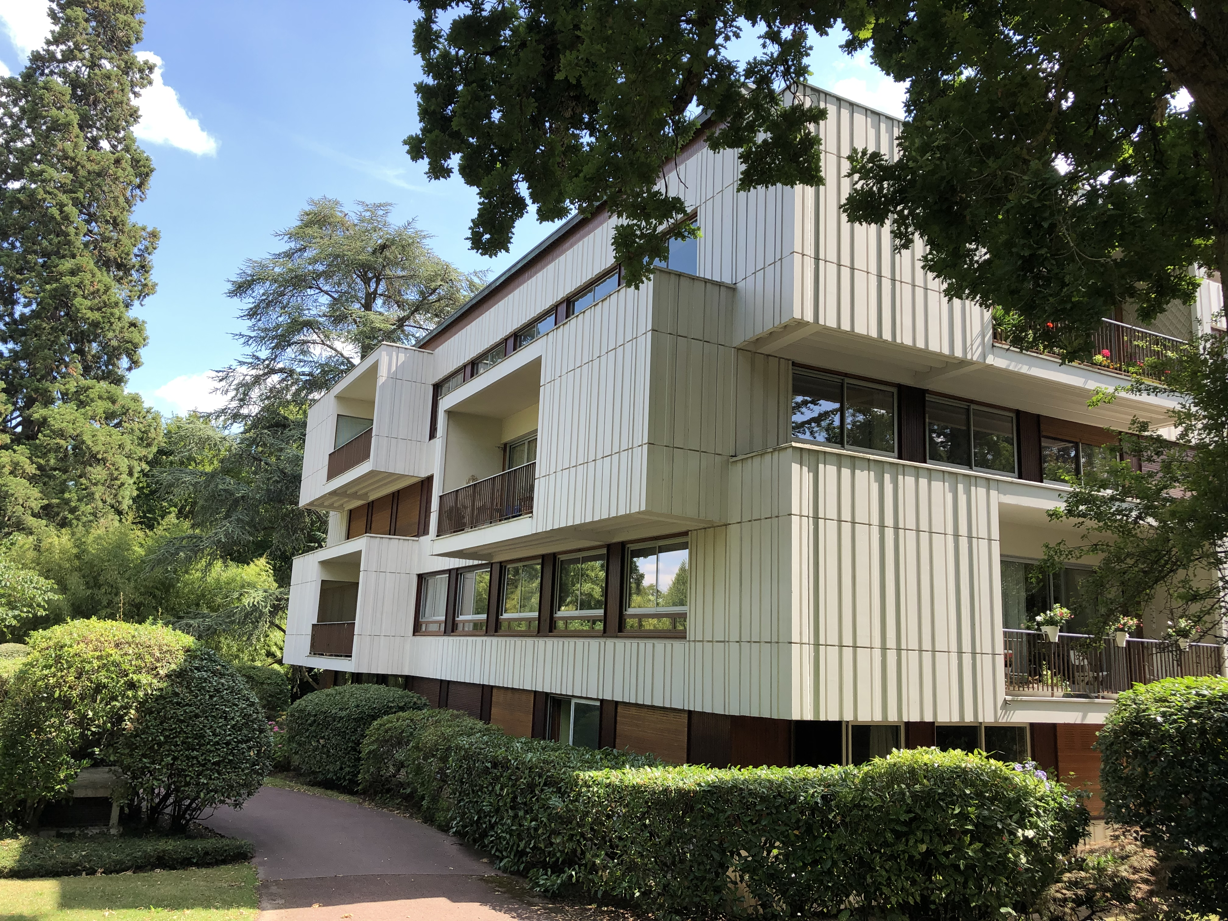 Immeuble d'habitation de la Résidence dauphine à Louveciennes